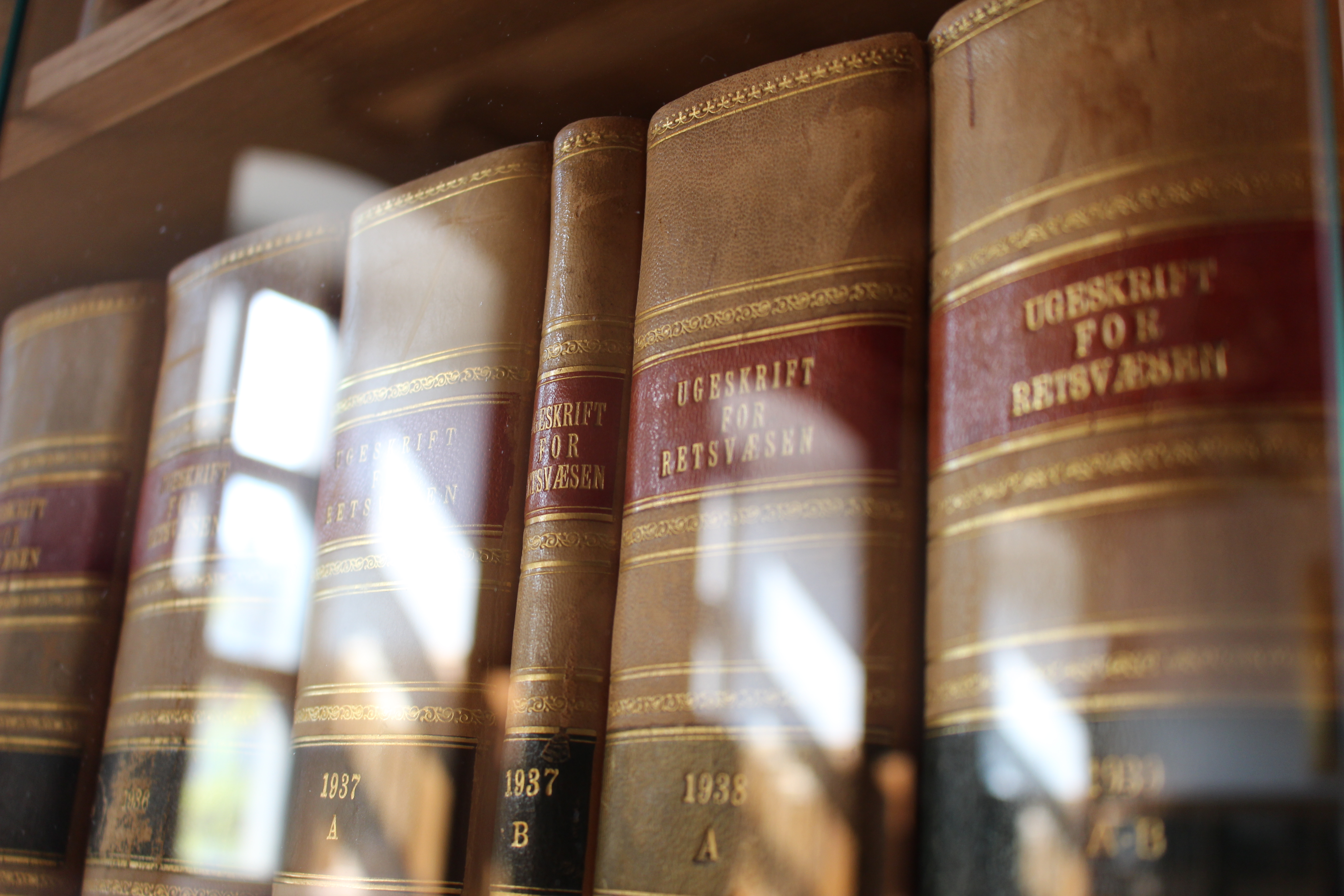 Books with the Danish journal "Ugeskrift for Retsvæsen" placed in the Børsen building at Dansk Erhverv with sunlight reflected in the glass door.